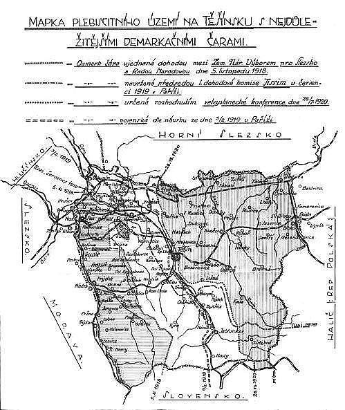 Map of the plebiscite area of Cieszyn Silesia during the dispute between Czechoslovakia and Poland over Cieszyn Silesia in 1918 - 1920. The descriptions on the map are in Czech.